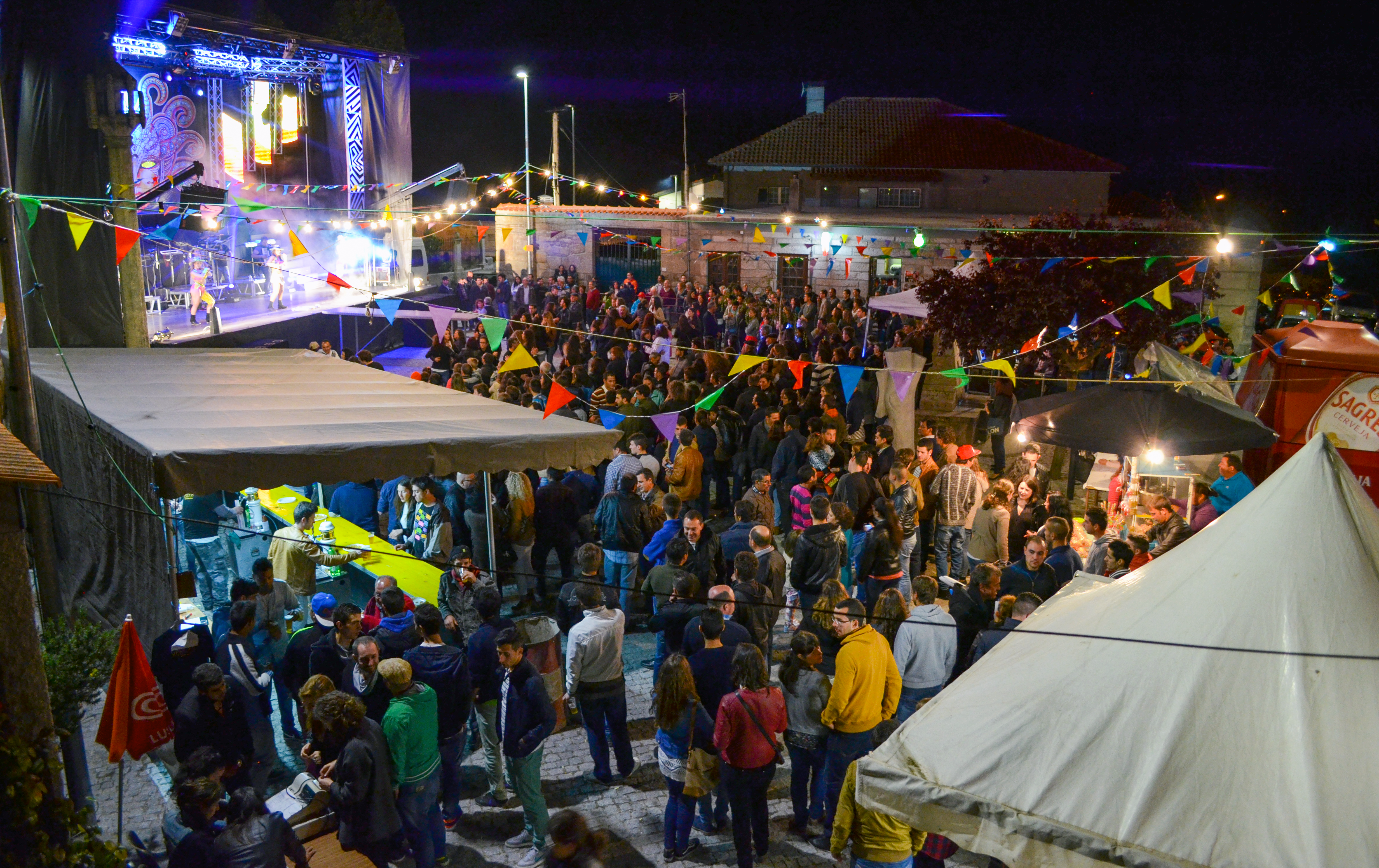 A musical event during the São Pedro de Verona festivities.